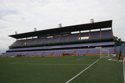 Photo of Estadio Ricardo Saprissa Ayma by Enriqe Rodriguez